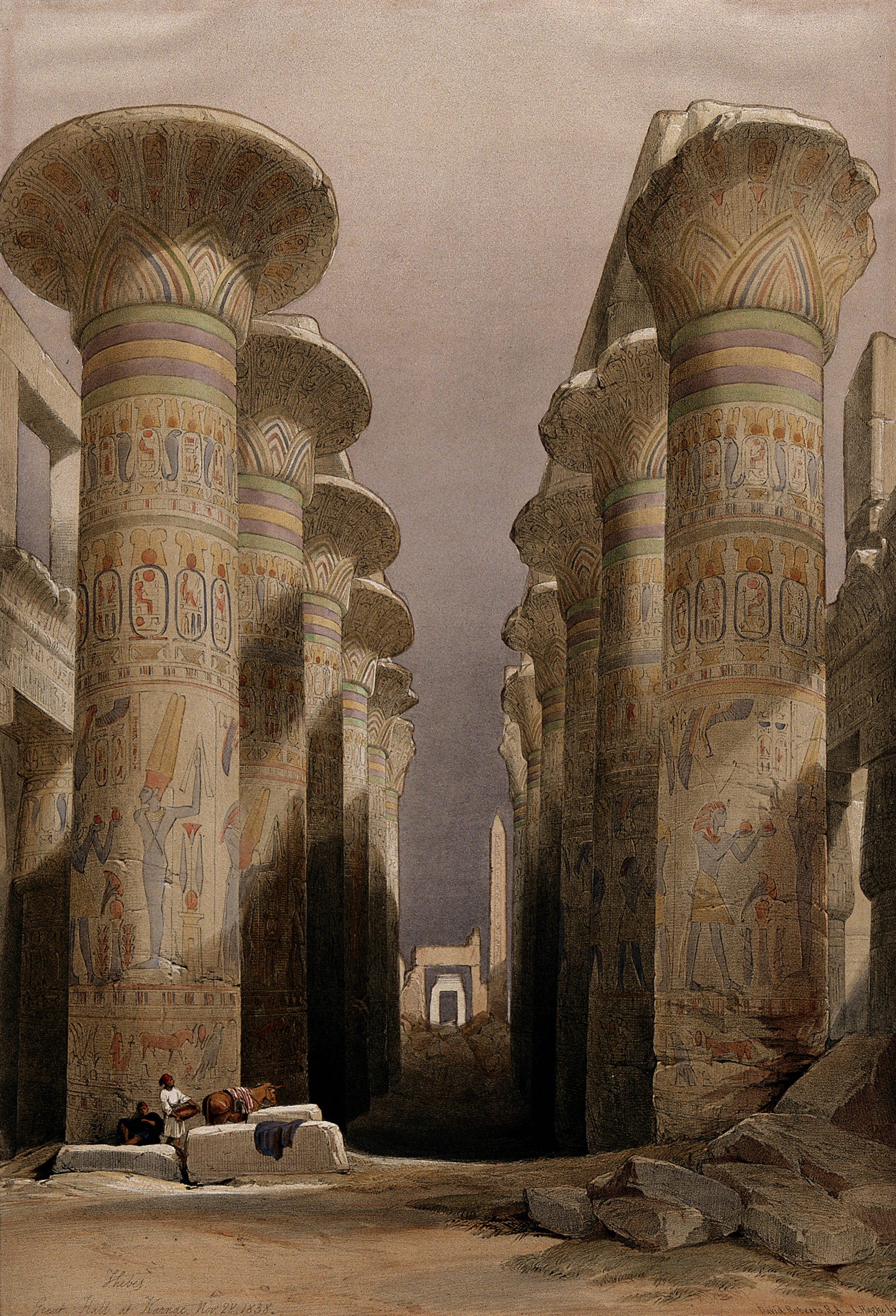 Decorated pillars of the temple at Karnac, Thebes, Egypt. Coloured lithograph by Louis Haghe after David Roberts, 1846. Iconographic Collections Keywords: David Roberts; Louis Haghe